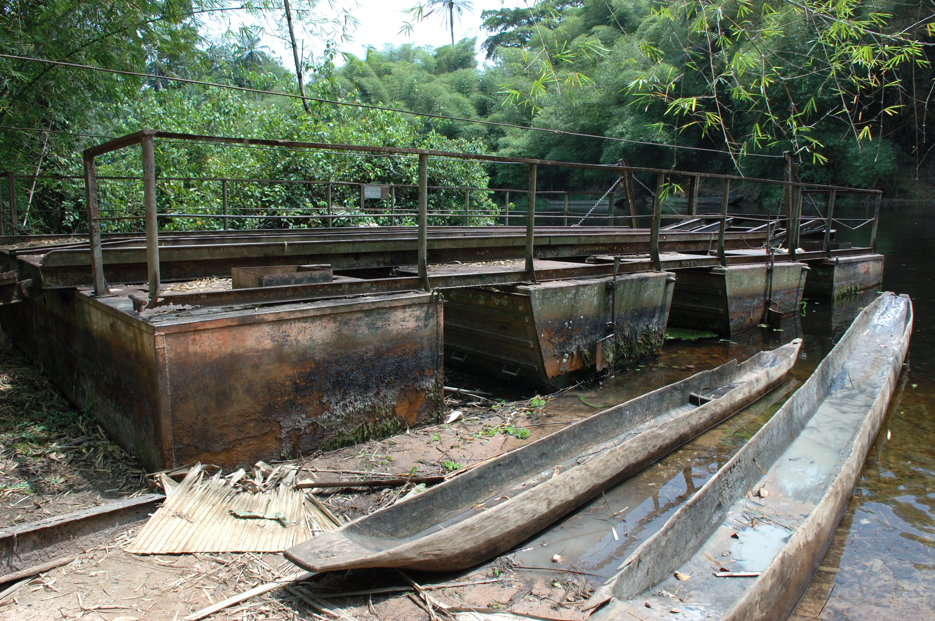 A Wasted Development Aid Project in Congo, an abandoned ferry as a relic of a development project is rusting next to the boats people use today.